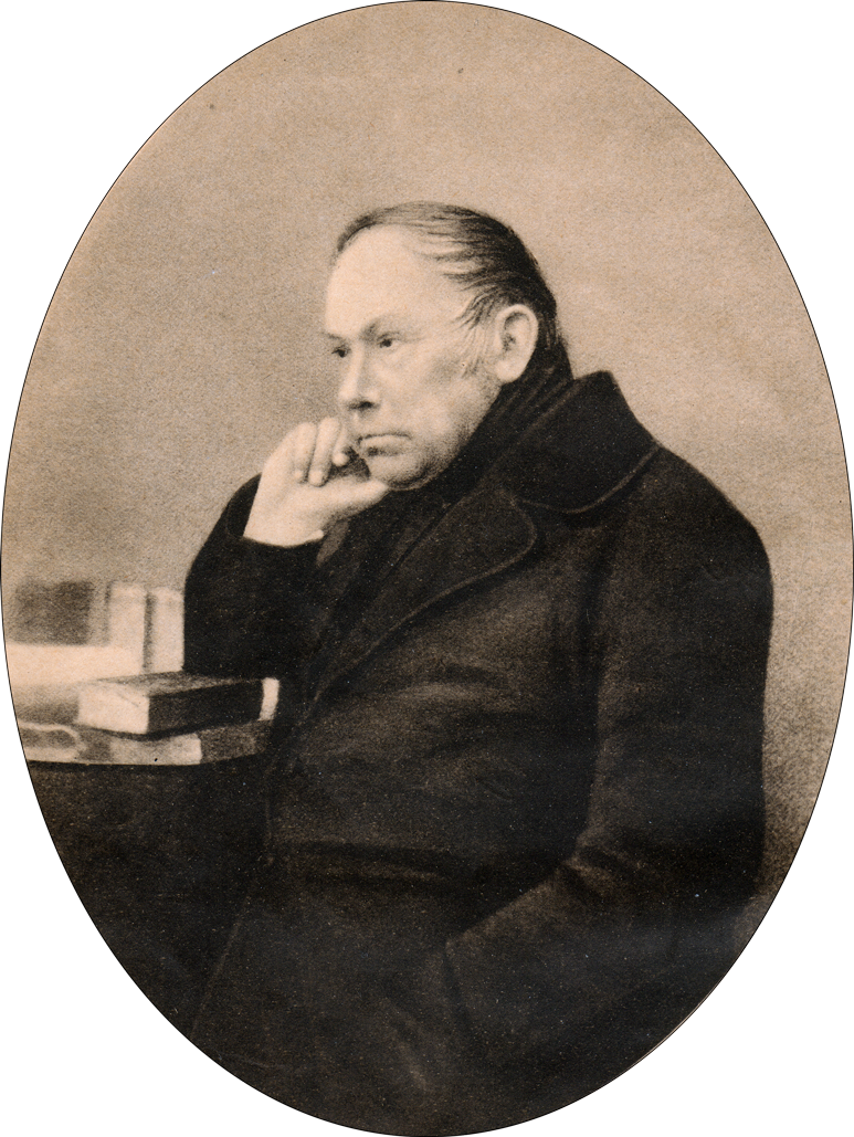 Daguerreotype of Vasily Zhukovsky